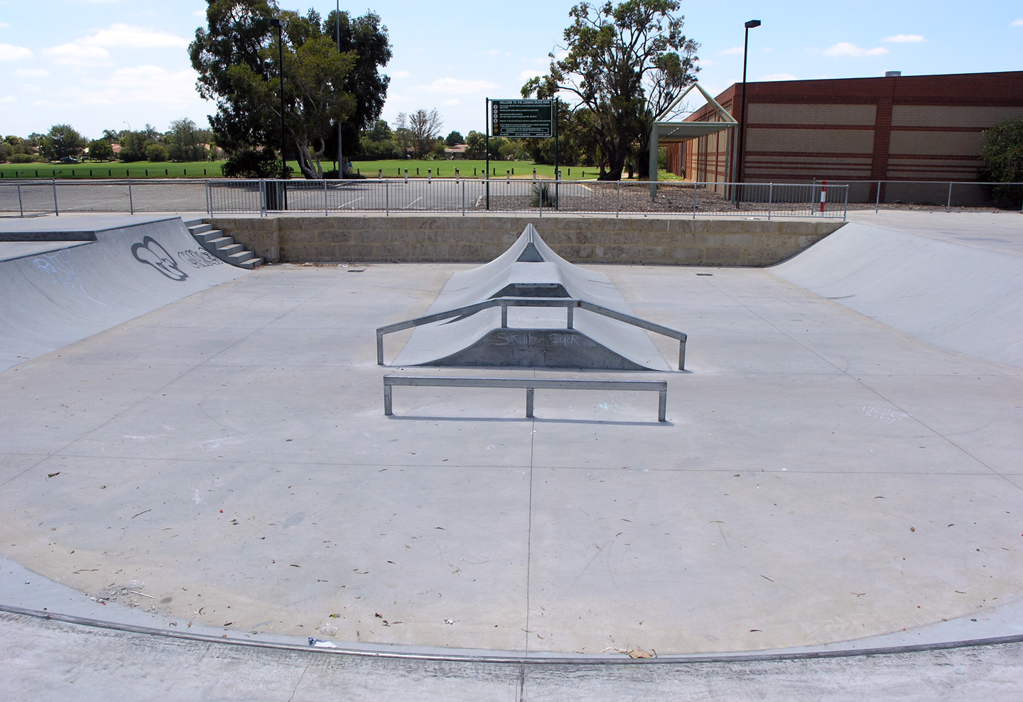 Leeming Skate park, Leeming, Perth, Western Australia. Taken by myself.